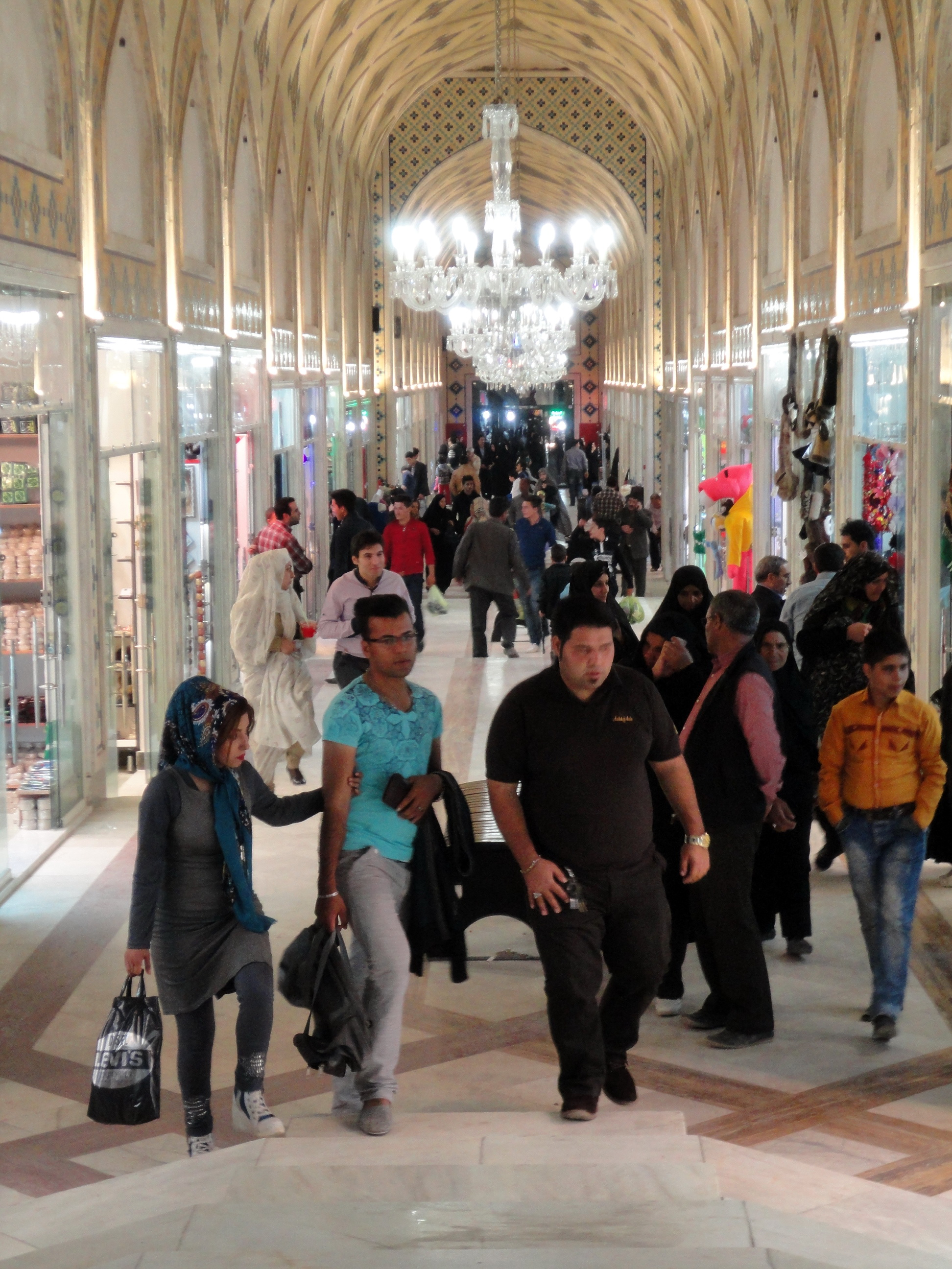 Hedayat Little Bazaar- Near Holy shrine of Imam Reza - Mashhad